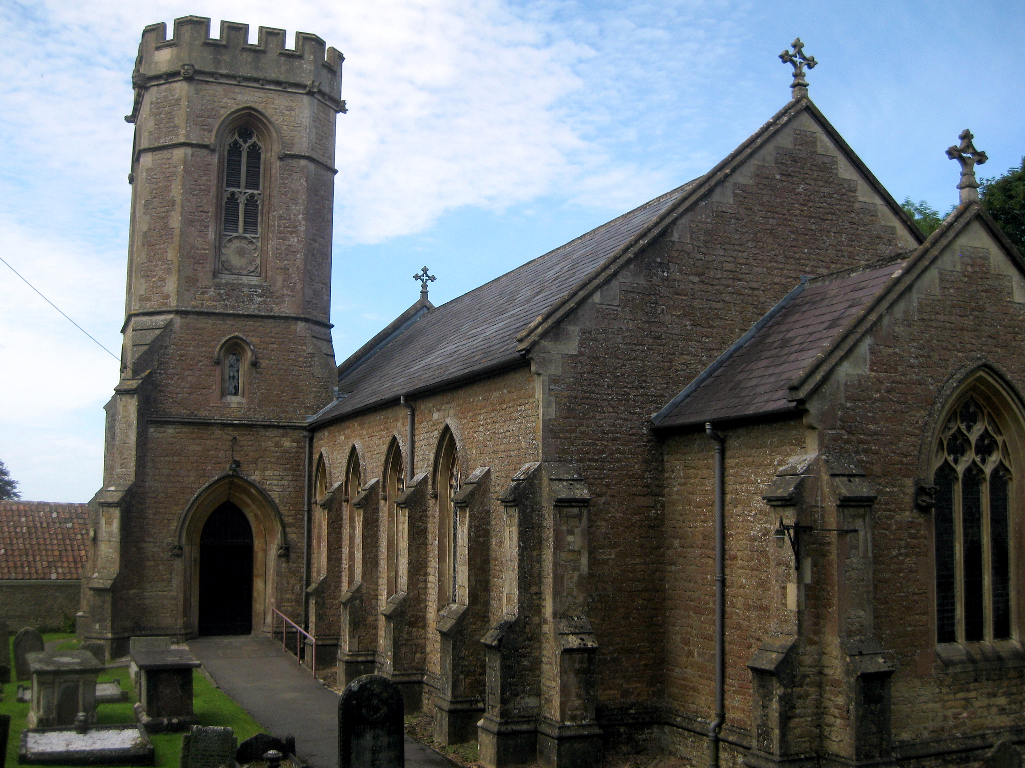 St Leonard's Church, Shipham Somerset, UK